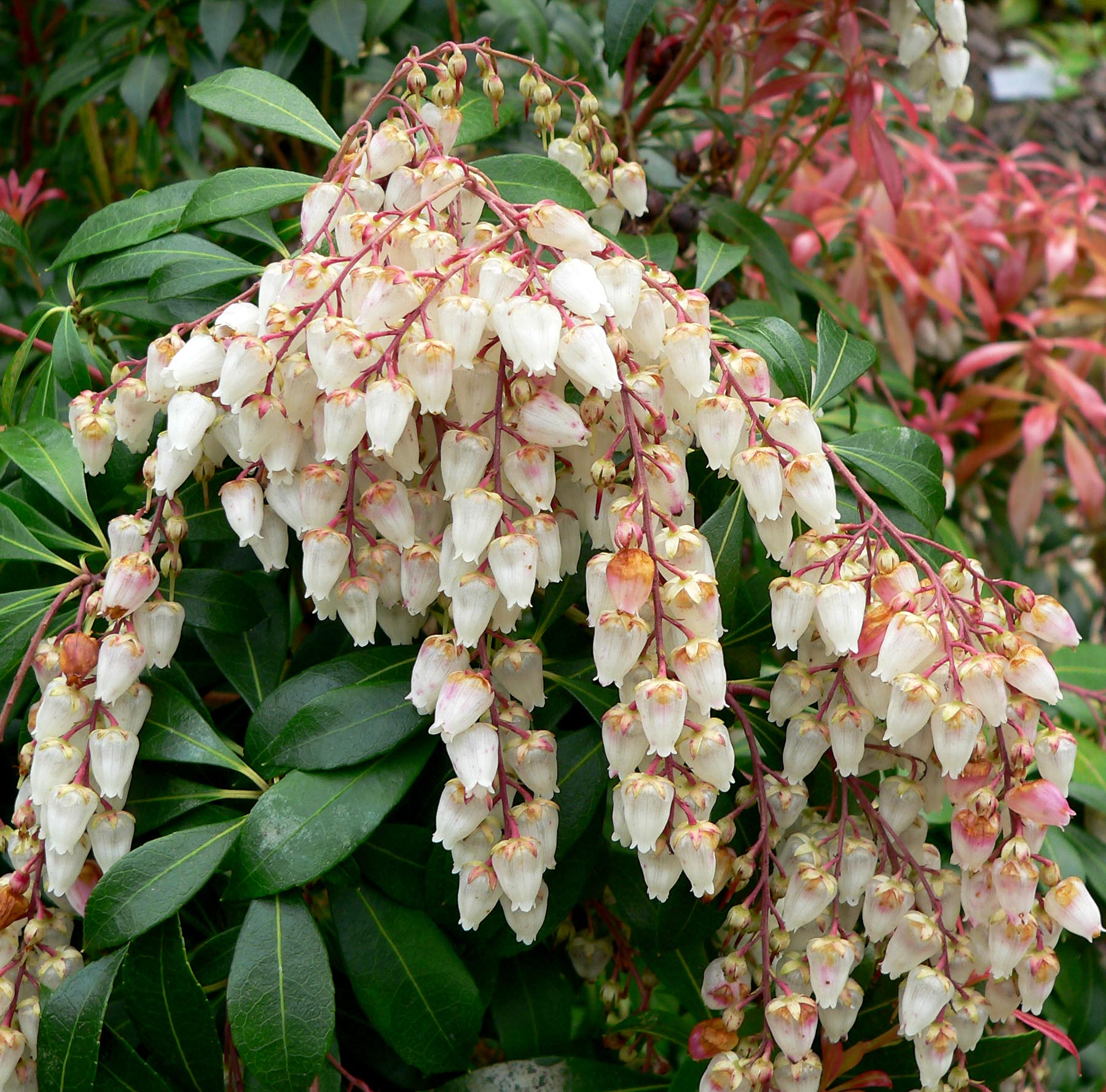 Photo of Pieris japonica at the University of California Botanical Garden